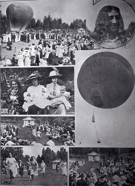 Camera flashes at the annual gala at Wainoni Park on 24 January 1914. Shown from top left: (1) The balloon ascent by Captain Jonassen : a snapshot just before the start. The conditions were favourable, and the intrepid aeronaut ascended nearly 4500 ft before releasing his parachute by which he made a slow and graceful descent, landing on the New Brighton tramway at Sandilands; (2) A charming poi dancer; (3) Prize-winners at the baby show. From the left, Napier Frederick Rangitiki, a pretty little five-months old Maori boy, first, George Lionel Boone and Leslie Irving Boone, eleven weeks old twins, second, Jack Goss, six months, third; (4) The young women's race; (5) The balloon ascent soon after the start, showing the position of the parachute with Captain Jonassen on the trapeze;(6) The married women's race; (7) The children's race.